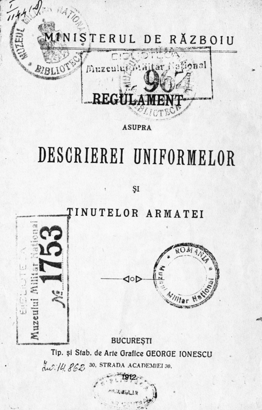 The front cover o the regulation regarding the military uniforms of the Romanina Armed Forces, in 1912